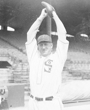 Baseball pitcher Red Faber winding up to throw a baseball, standing in front of grandstands at Comiskey Park, dark exposure（1929）